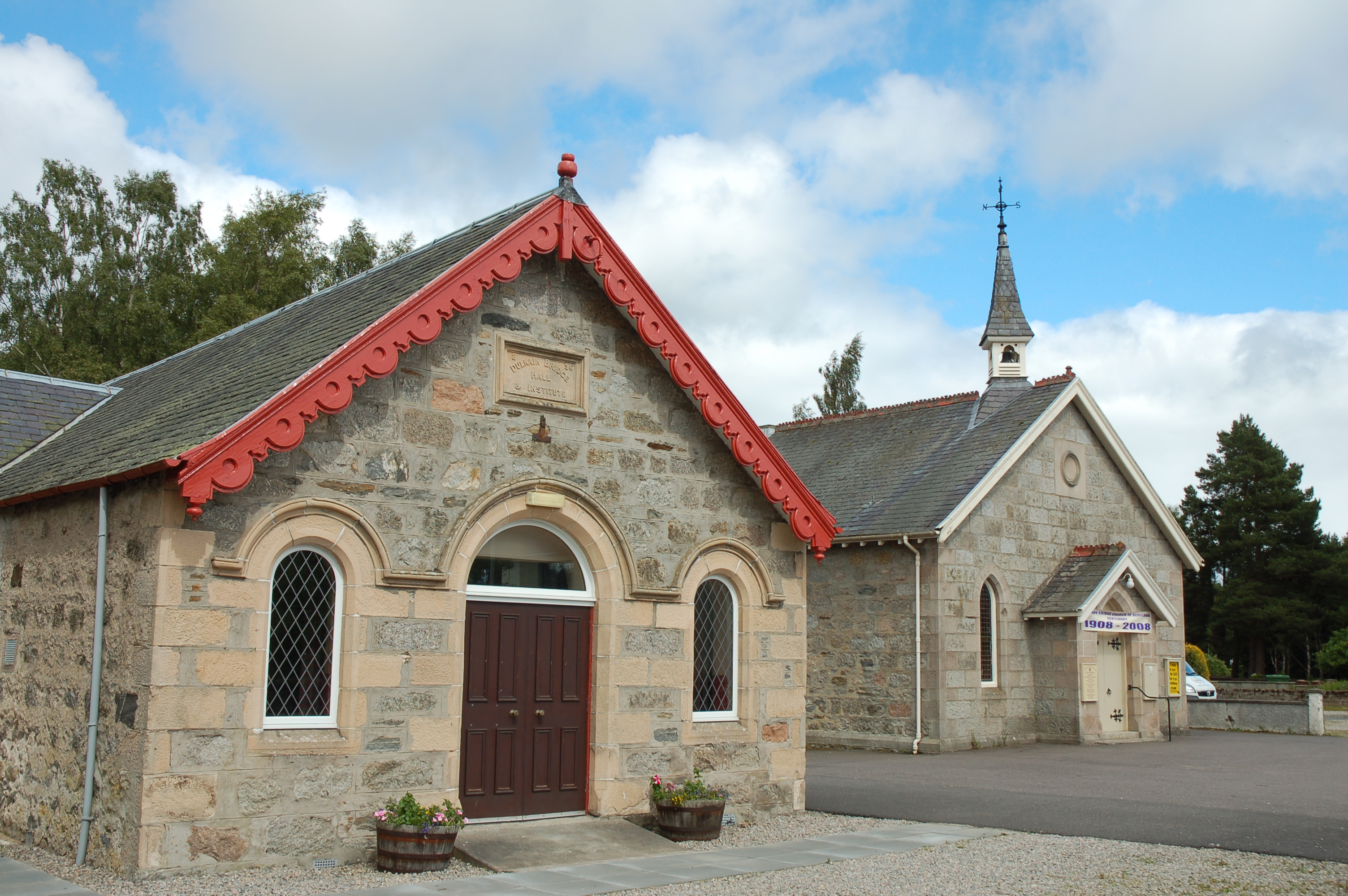 Village Hall (l) and Church (r) in Dulnain Bridge,Strathspey,Scotland.